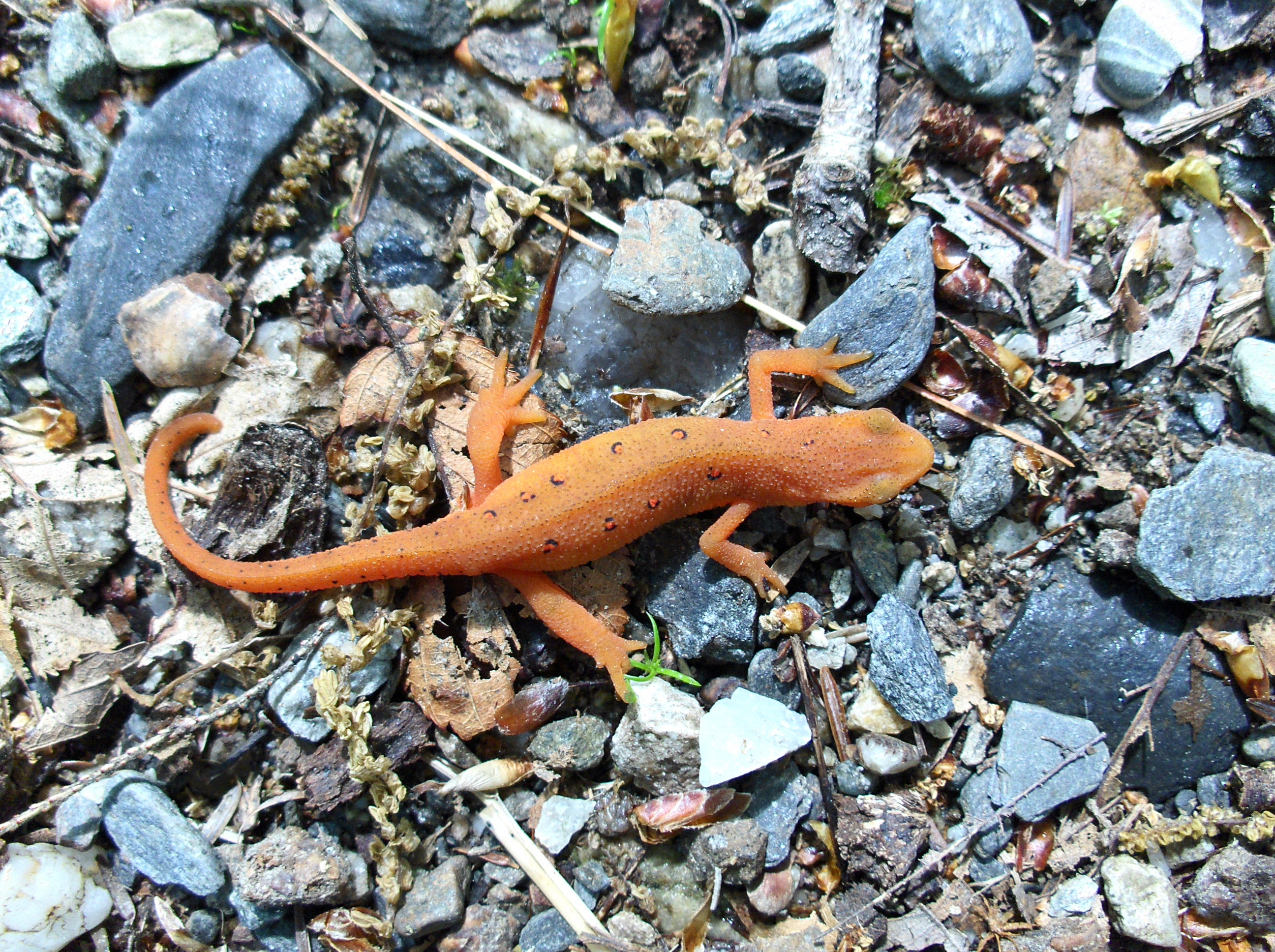 Red-spotted newt red eft (Notophthalmus viridescens). Picture of this Red-spotted newt was taken 23 July 2007 at the Northfield Mountain Environmental & Recreation Center 99 Millers Falls Road, Northfield, Massachusetts 01360